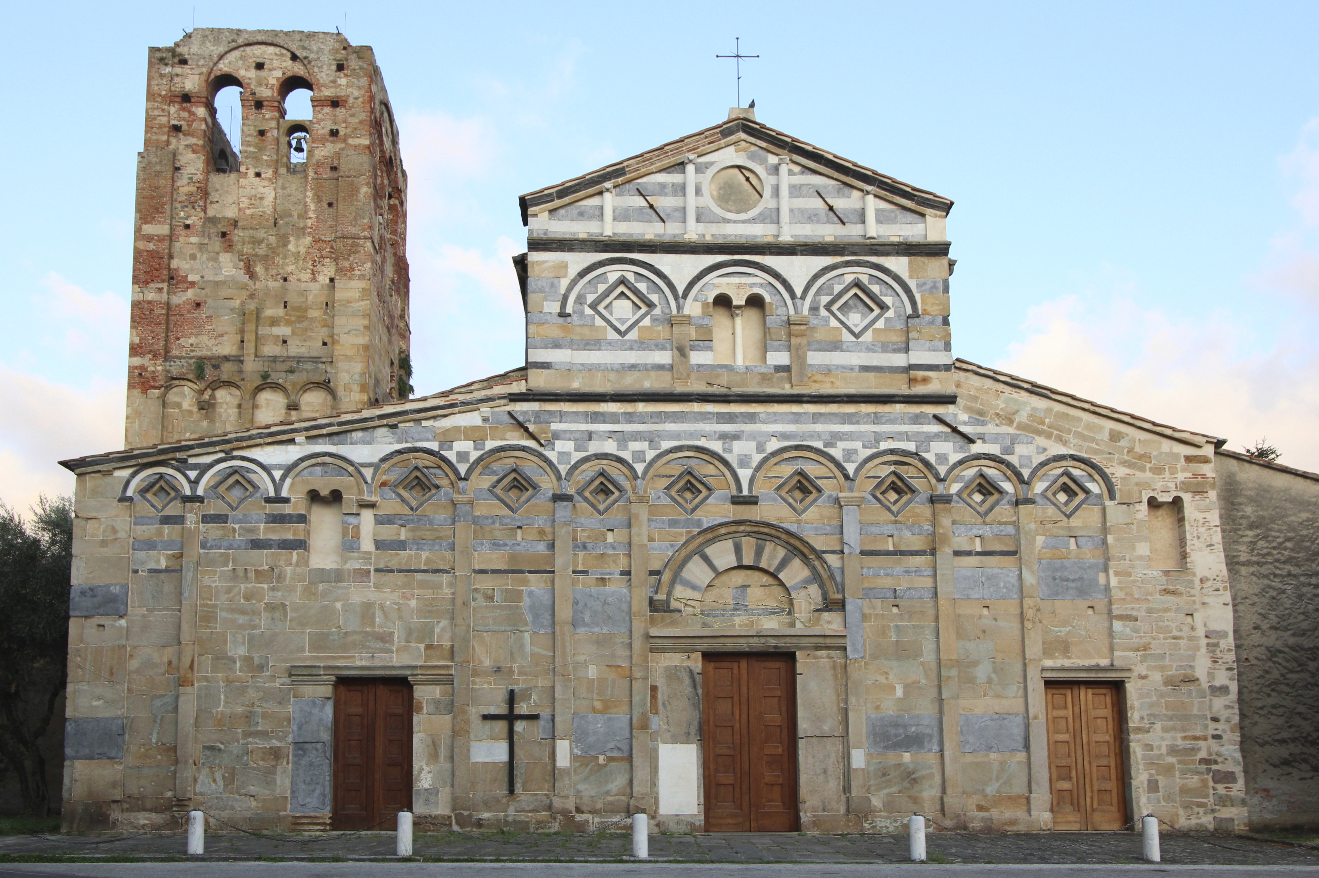 church Santi Giovanni ed Ermolao, Pieve of Calci, Province of Pisa, Tuscany, Italy